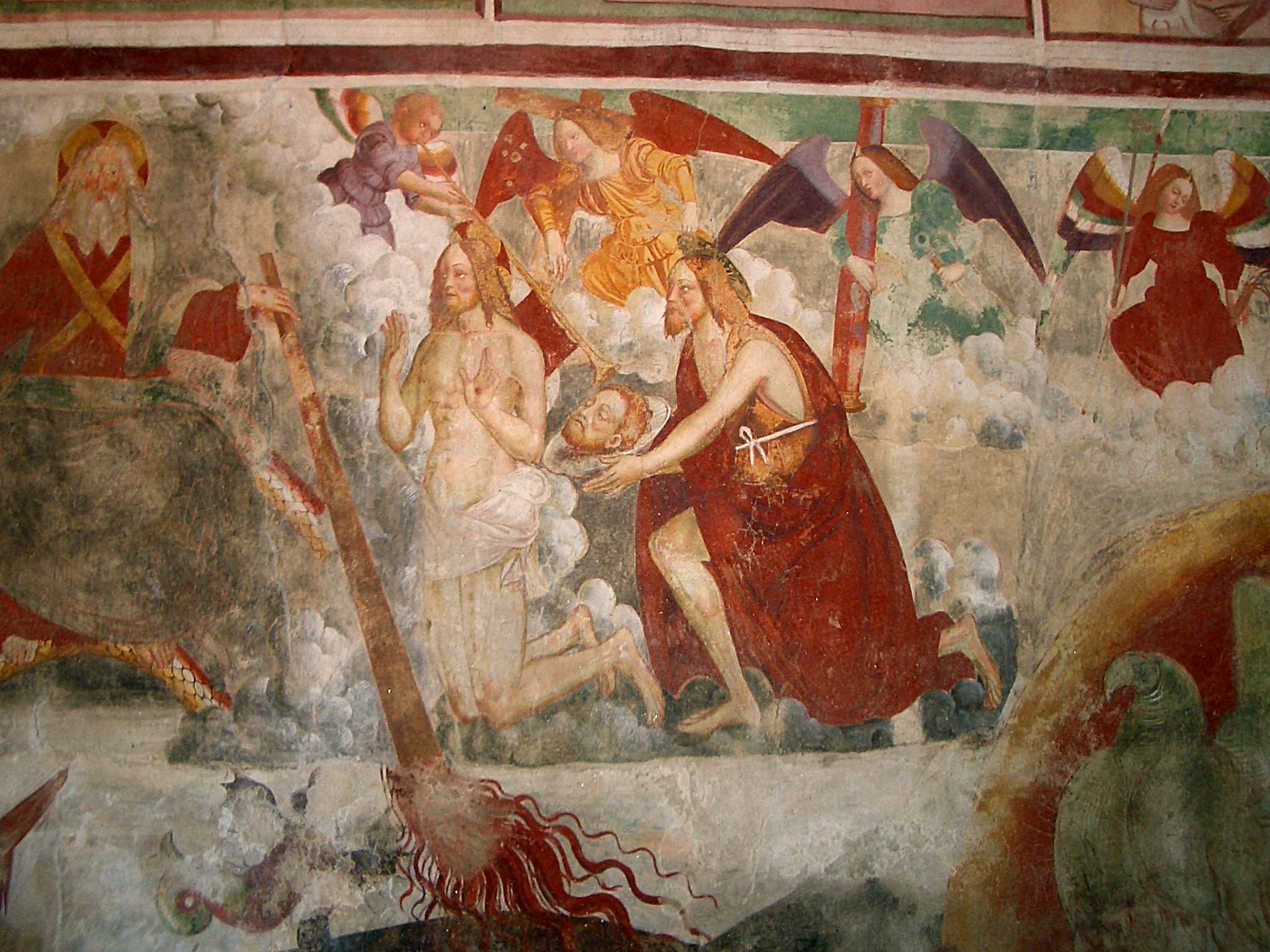 Sperindio Cagnola, Jesus Christ, John the Baptist kneeling and praying to God the Father (detail of the Last Judgement), 1514 -24, Paruzzaro, San Marcello Church